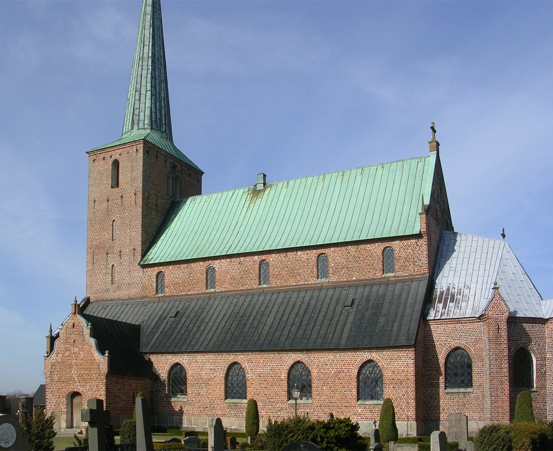 Genarp Church, Lund Municipality, Scania, Diocese of Lund, Sweden.